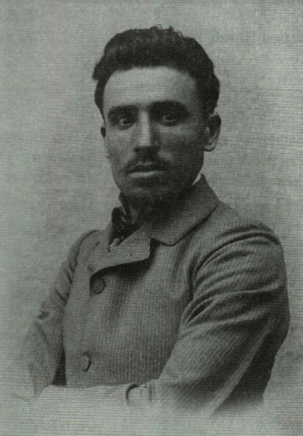 Stamen Panchev's portrait